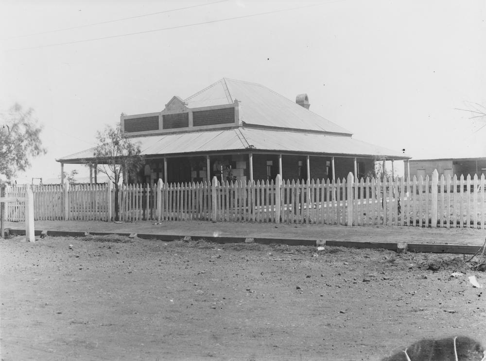 Shire Hall, Thargomindah, ca. 1893. This image shows the Shire Hall building in Thargomindah, ca. 1893. The brick building has a white painted, picket fence in front. The foreground shows the unpaved road. No vehicles or people are shown.